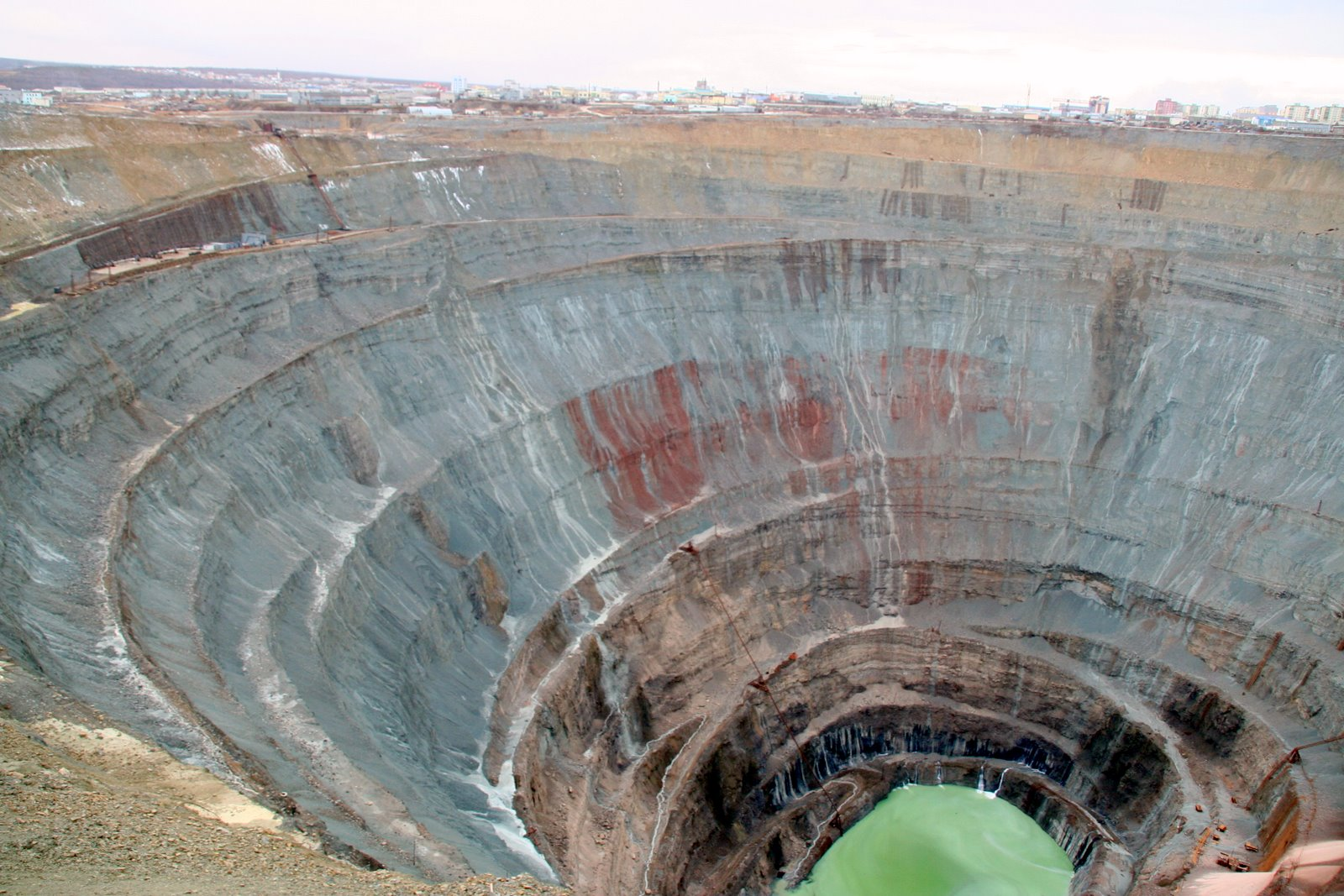 The open pit diamond mine of Mirny in Yakutia. Its depth is 525 meter.